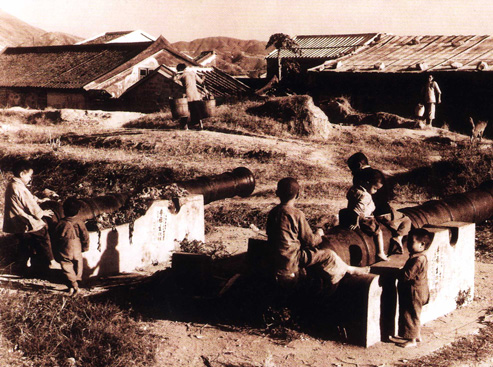 The daily life of citizens in Kowloon Walled City at the early of 20th century. 中文（香港）: 20世紀初九龍寨城居民的生活情況。